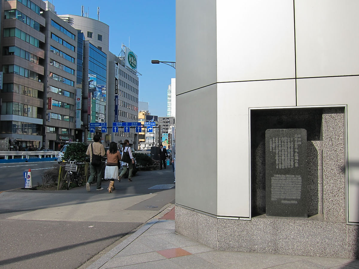 The monument of Choei Takano at Spiral building in Aoyama, Tokyo